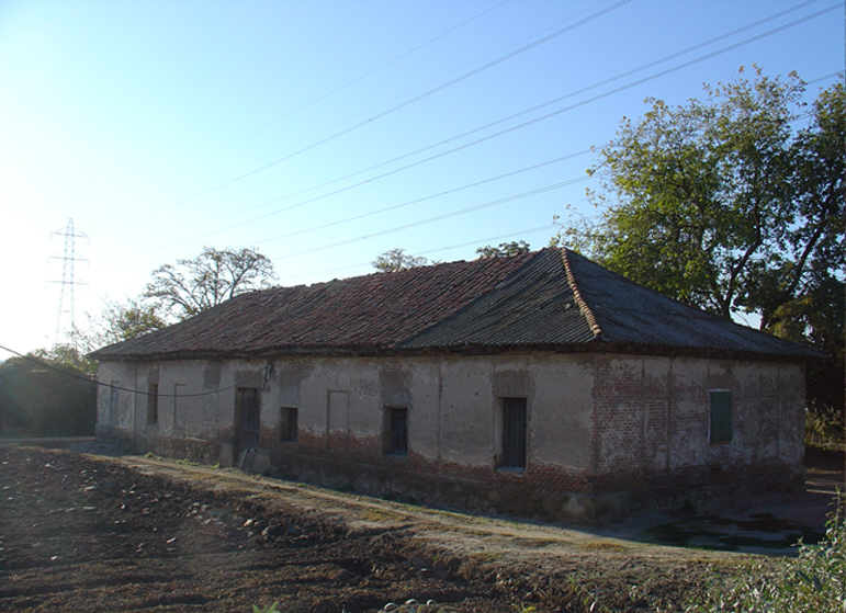 The house of the fourth lock in Madrid. Perfectly preserved.